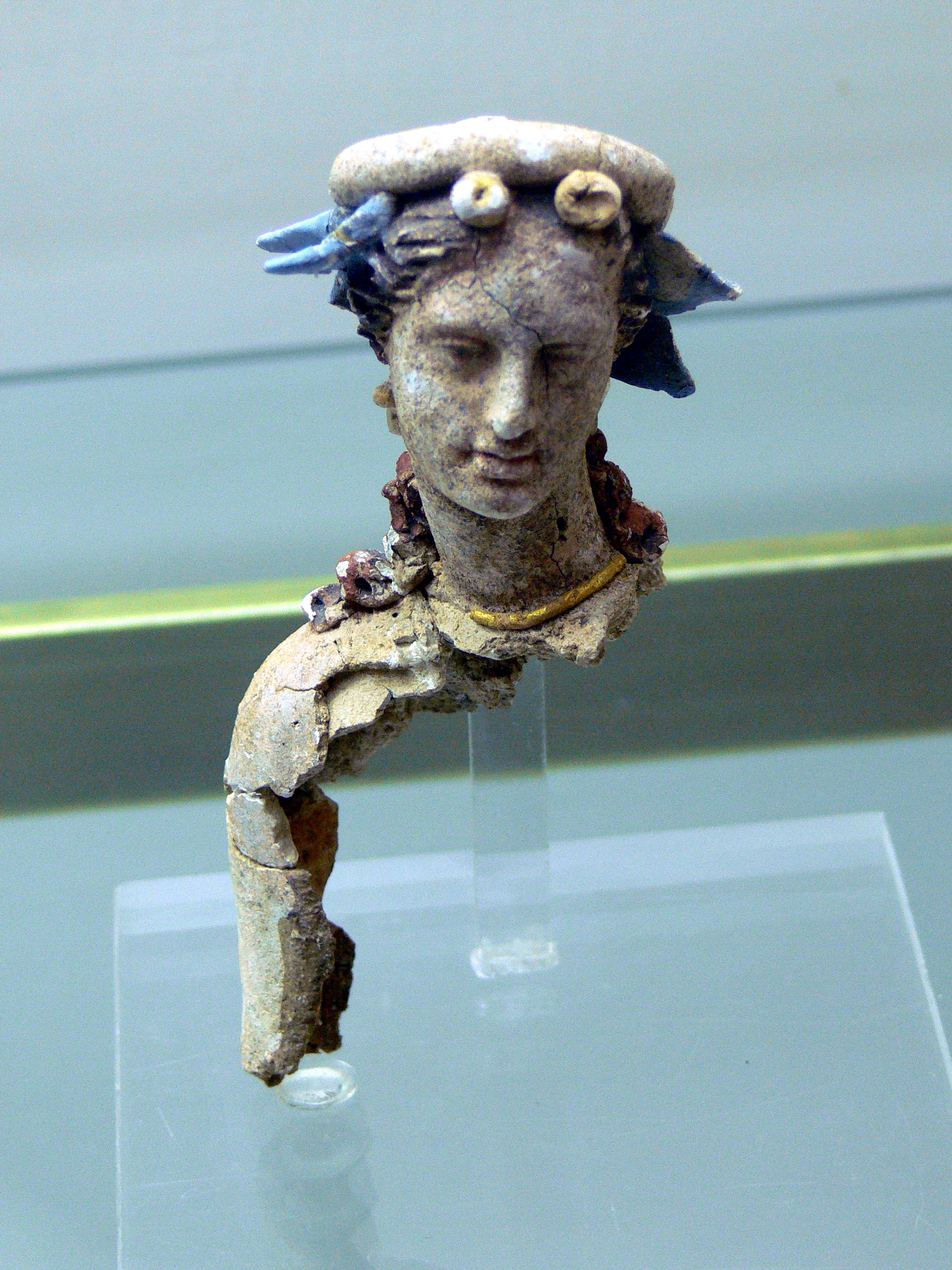 Archaeological Museum of Chania (Crete). Early hellenistic head of a woman (Alexandrian workshop) from the cemetery of ancient Kydonia (Chania).